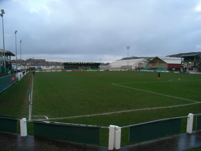 Stadiwm Coedlan-y-Parc/ Park Avenue Stadium